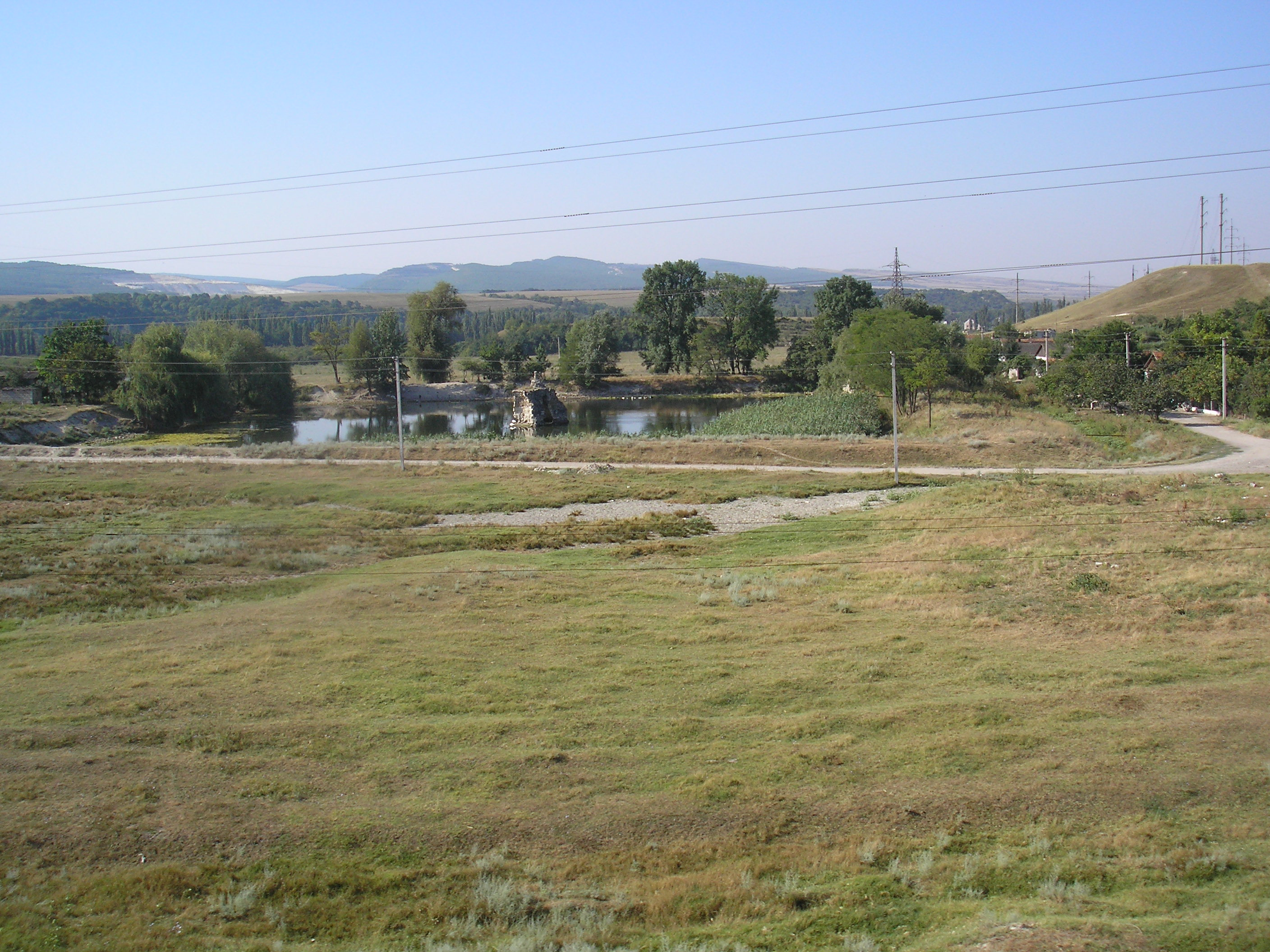 Former estate of Aji-Bike